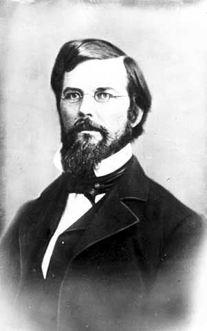 Photograph of Minnesota Governor Henry A. Swift Photograph Collection ca. 1862 Location no. por 19682 p1 Negative no. 8215-B